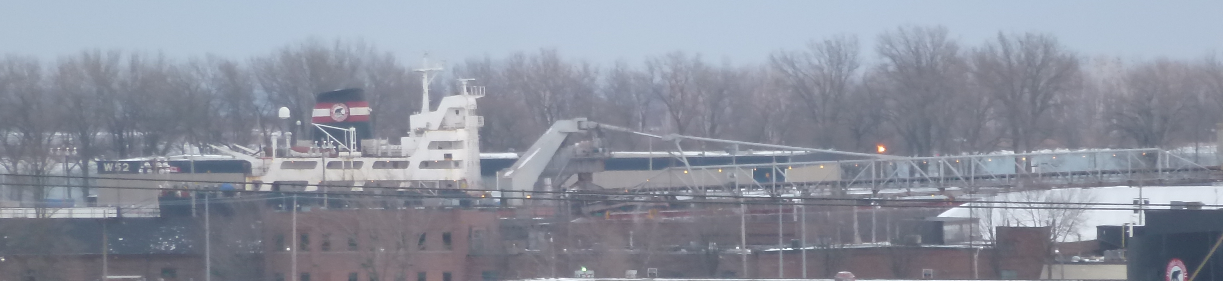 The Algoma Navigator moored in the channel to Toronto's turning basin. If you look closely you can see this vessel has a long boom. Self-unloading bulk-carriers can swing out their booms, to unload their cargoes. Their holds have V-shaped bottoms, with a conveyor belt below them. When doors at the bottom of a hold opens the cargo starts to drop to the lower conveyor belt. The cargo is carried to some kind of lifting devices, which places it on the upper conveyor belt on the boom. Older bulk carriers that are not self-unloading still carry cargo, but self-unloading vessels are now more common. Lake vessels, which are not exposed to salt water, can remain in service for decades longer than a "saltie", and a considerable number of older vessels have been retrofitted with self-unloading machinery. The Algoma Navigator was retrofitted in 1997. If you look closely you can see a logo on the smokestack of a bear -- the logo of Algoma Central, one of larger Canadian shipping lines.